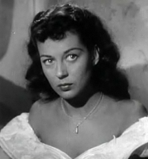 Screenshot of Gail Russell from the trailer for the film Wake of the Red Witch.